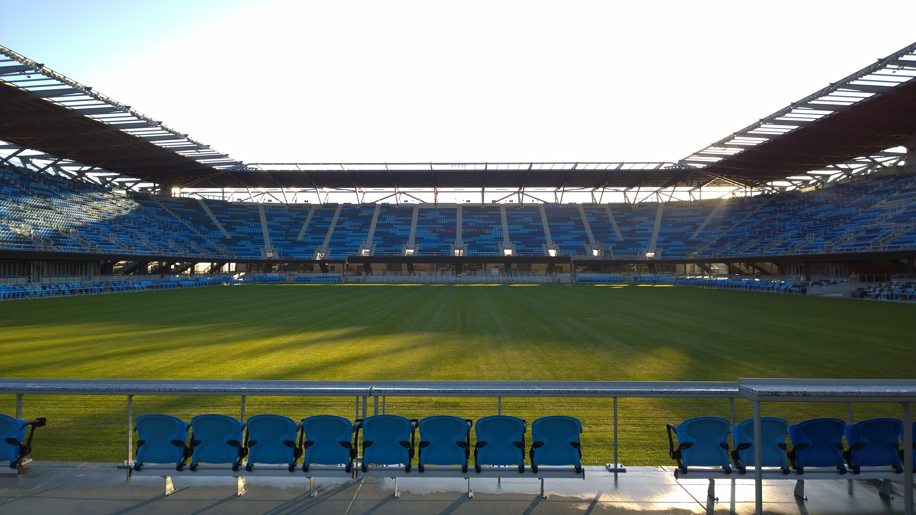 Avaya Stadium, San Jose, CA. Taken on January 7th, 2015.